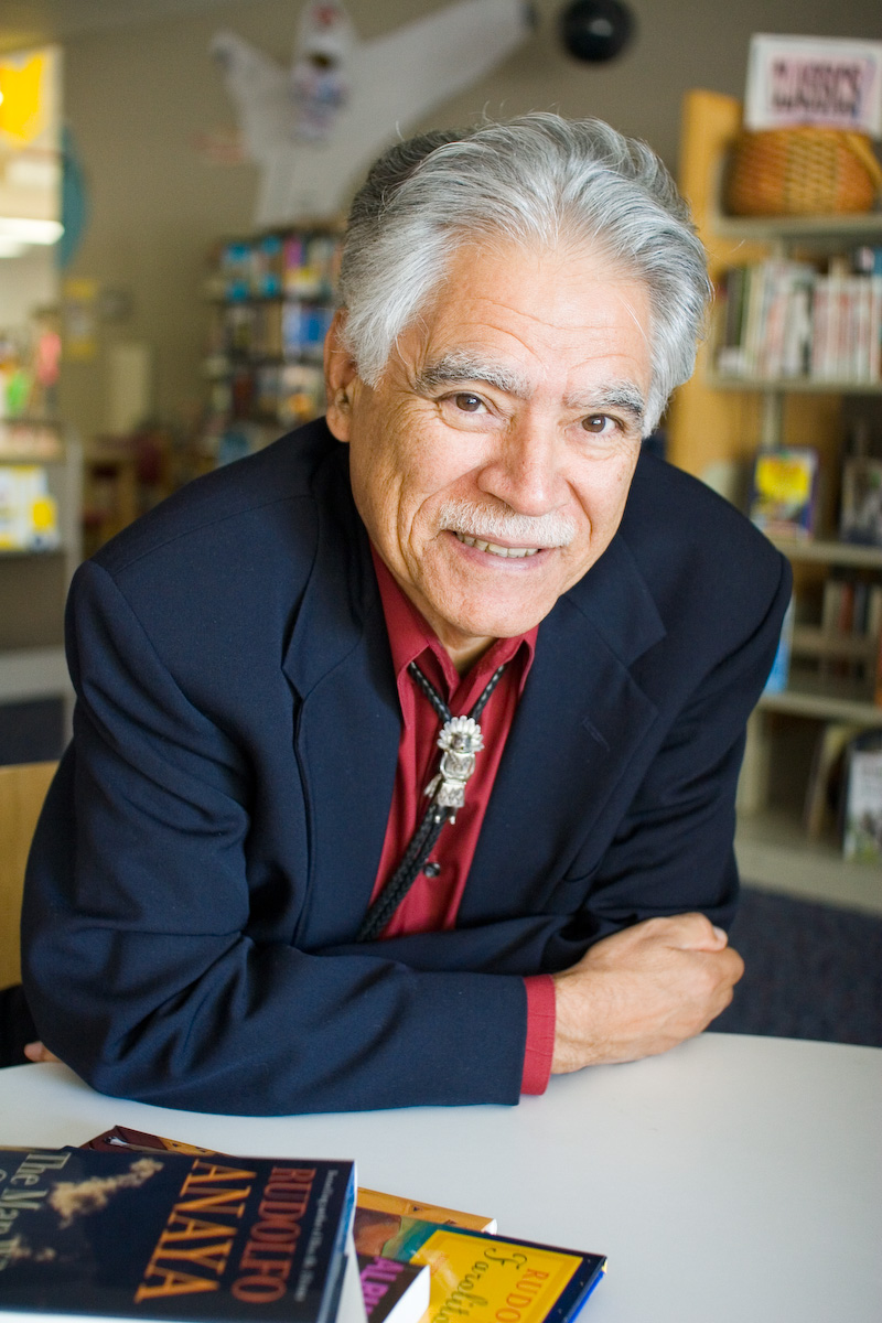 I had the privilege of meeting and photographing Rudolfo Anaya at a local library for the NEA of NM recently and this is one of my first (and favorite) snapshots. He was very engaging and funny (great sense of humor). -/\/